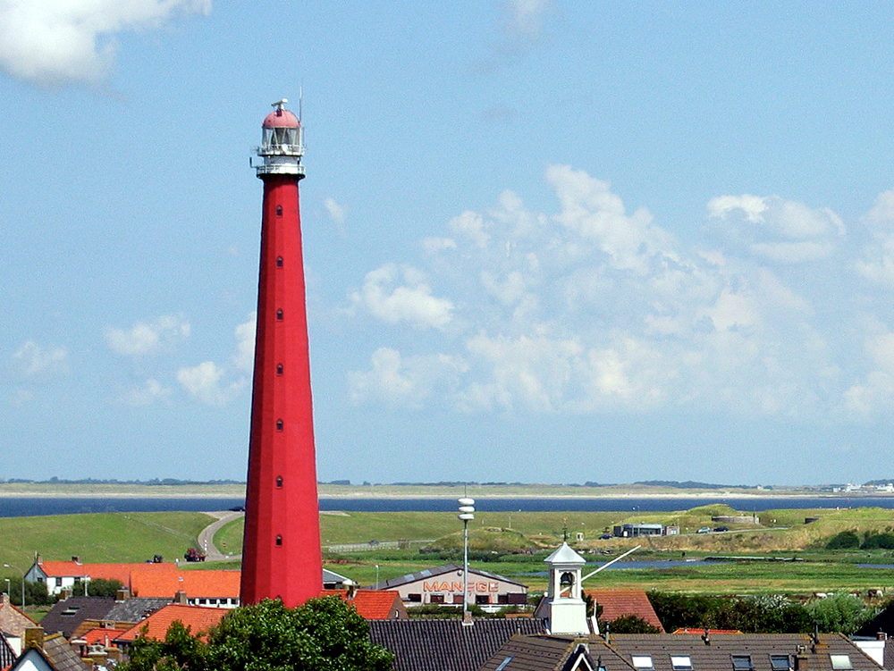 Lighthouse called Lange Jaap in Huisduinen, (Den Helder ), The Netherlands.